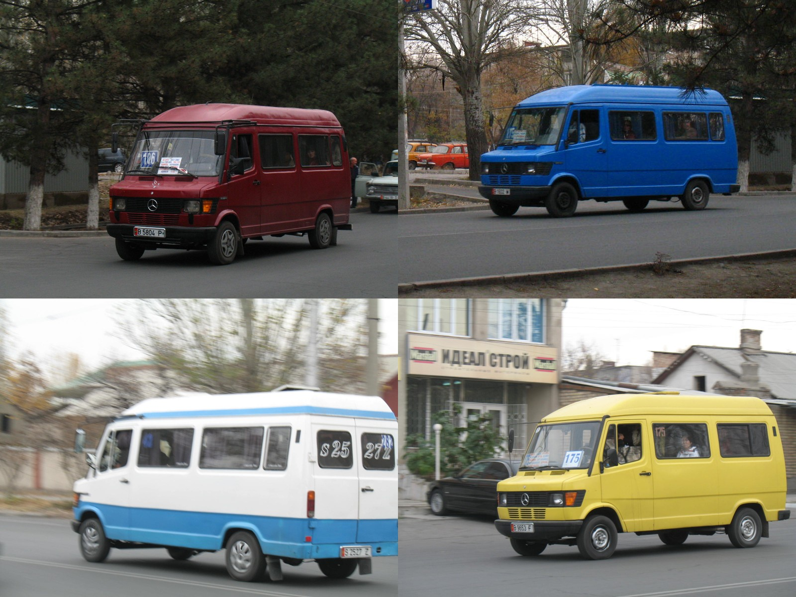 Collage of different coloured marshrutkas buses in Bishkek, Kyrgyzstan.